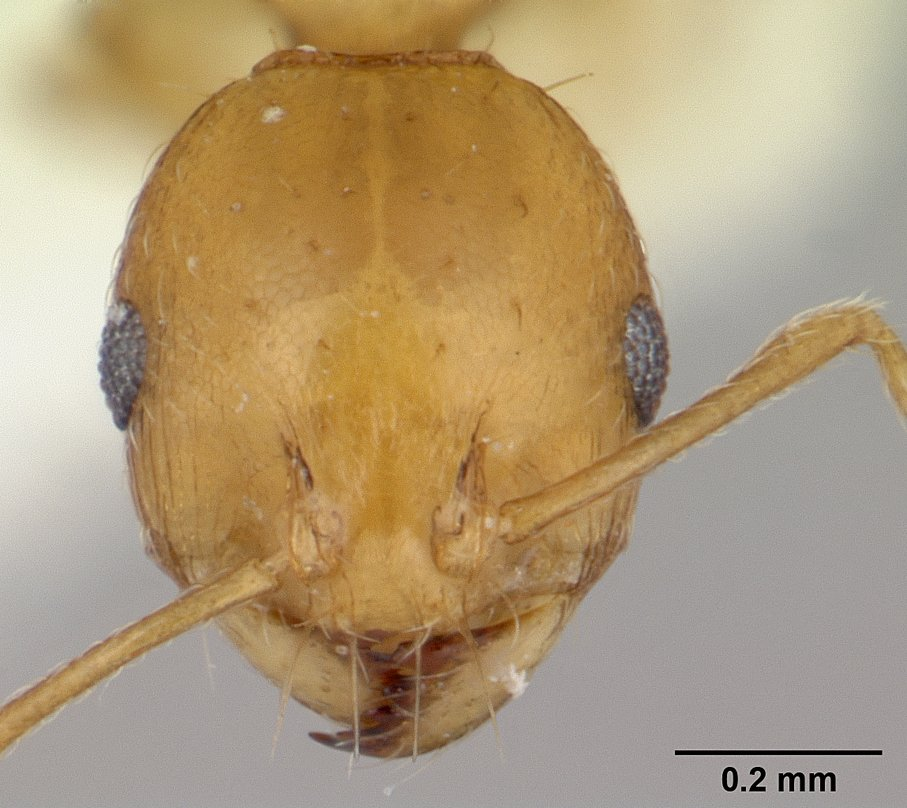 Head view of ant Recurvidris browni specimen casent0178521.